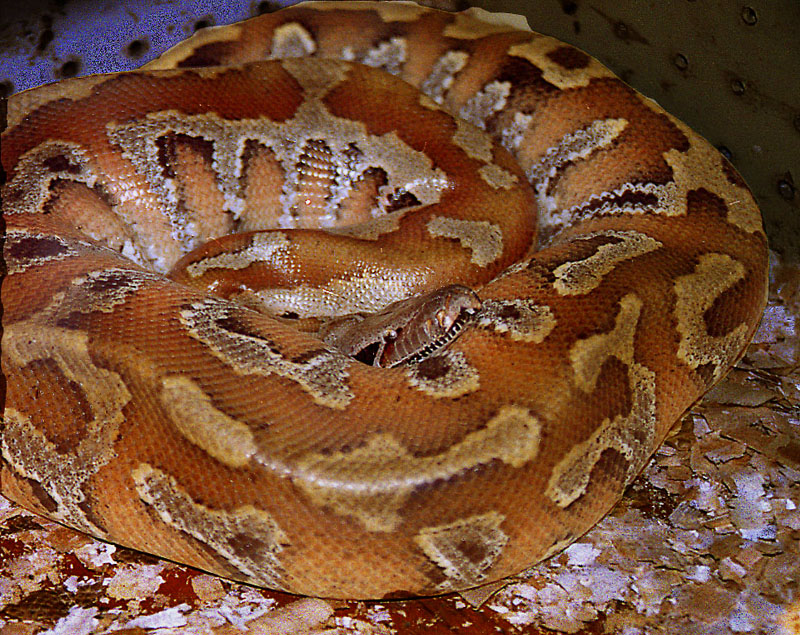 The Borneo Short-tail Python is endangered due to poaching for its attractive skin. This one is safe at the Serpentarium in Mendoza, Argentina. In context at